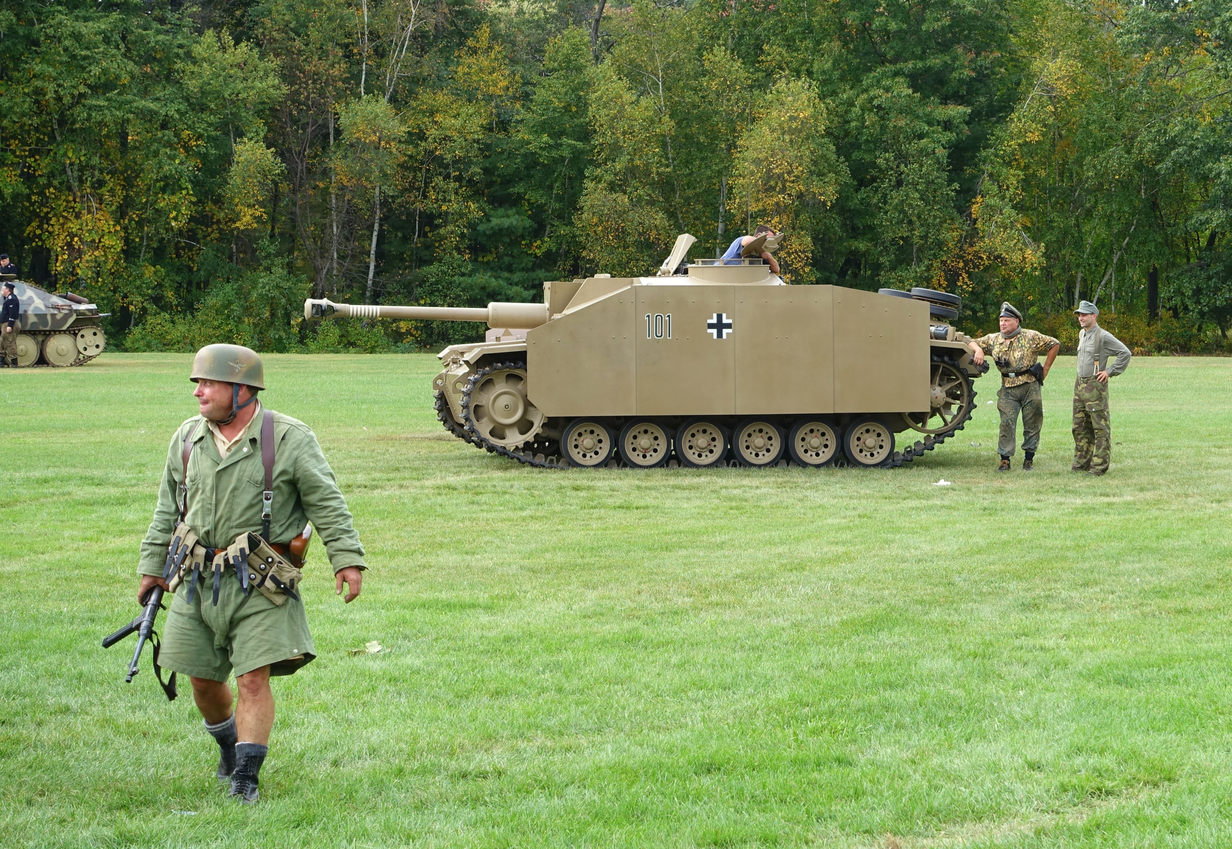 Sturmgeschütz III assault gun. Battle for the Airfield, 2017 - Collings Foundation - Stow / Hudson, Massachusetts, USA.